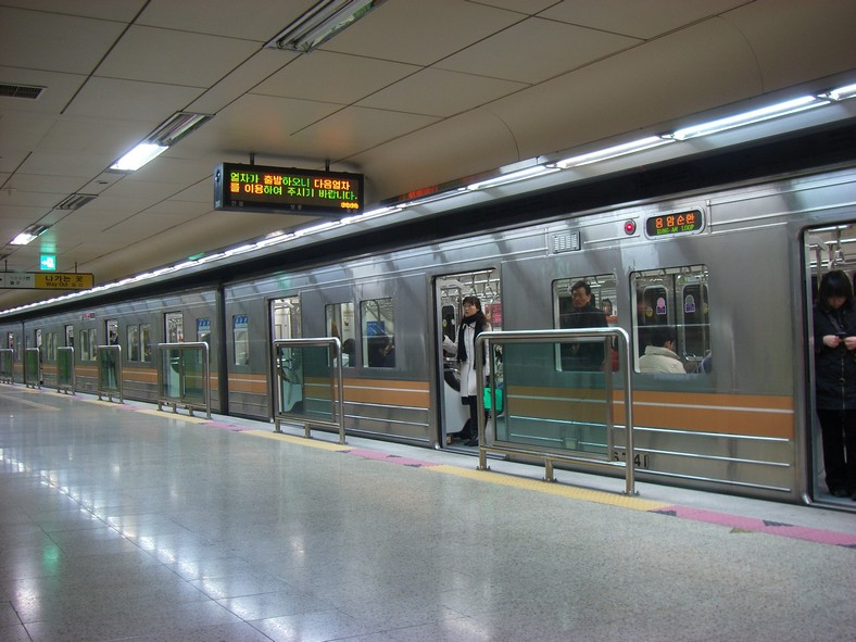 Changsin station